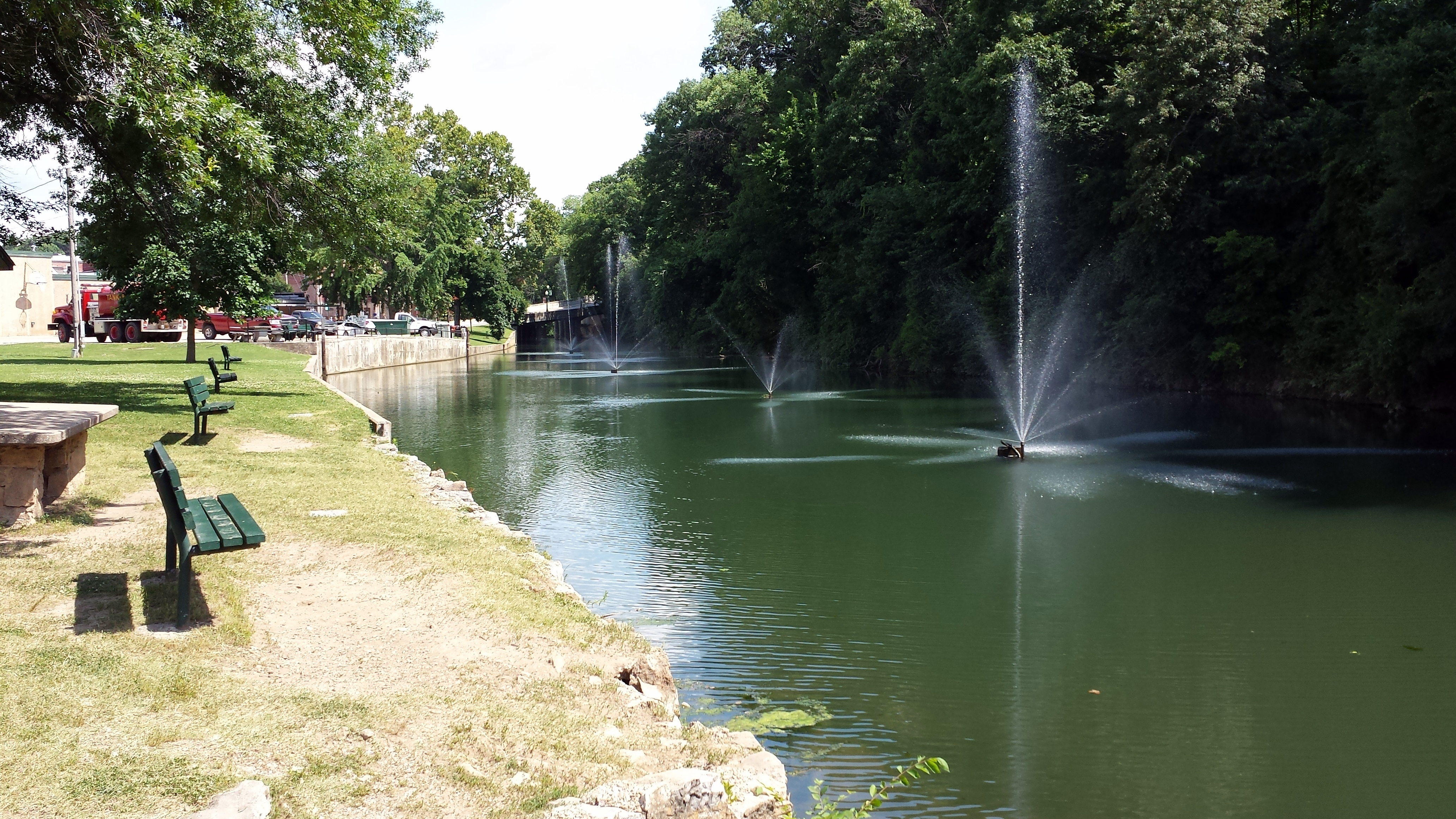 W. University & Mt. Olive ca. 1890 city park